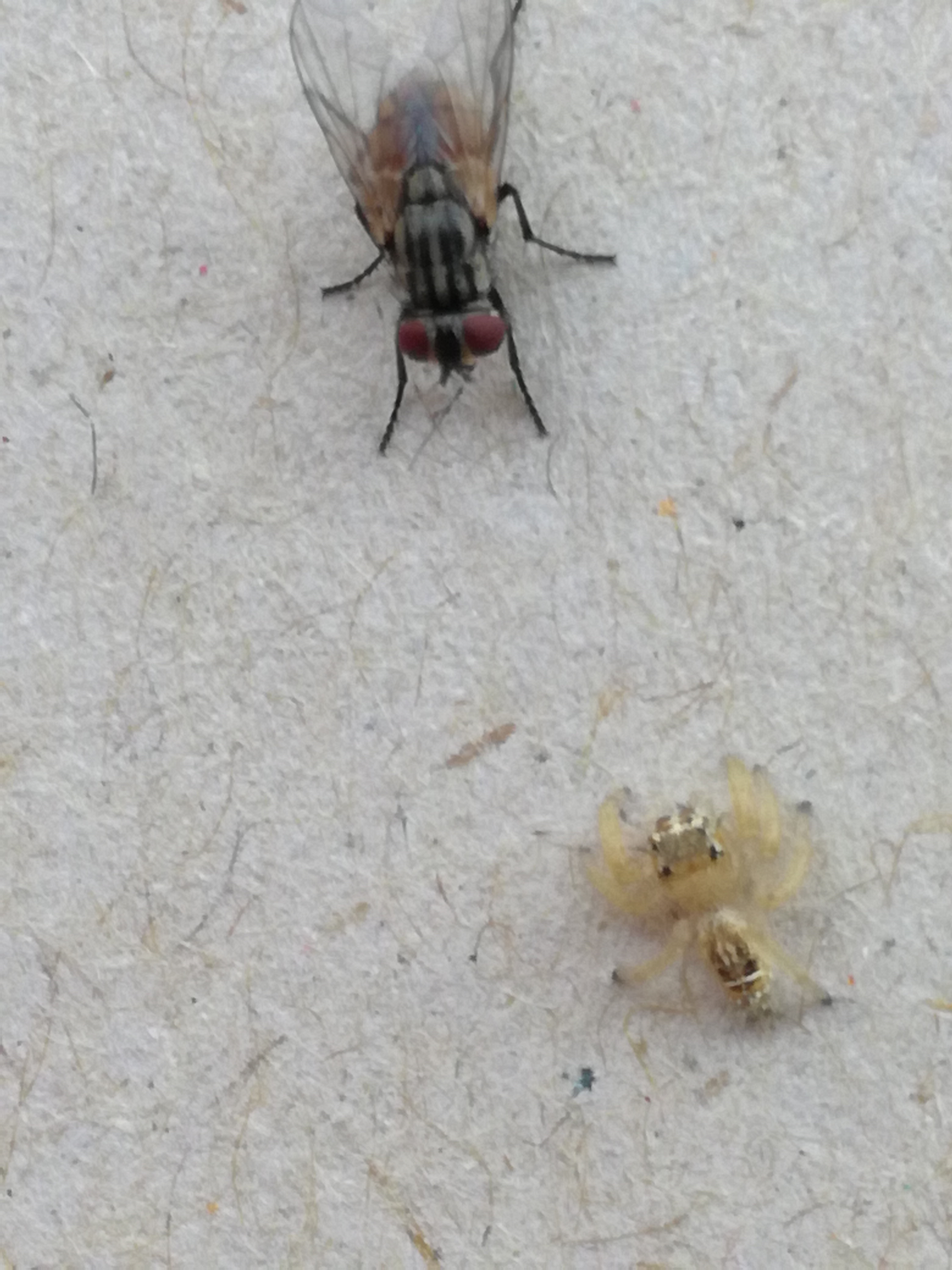 A fly and a spider in Tharparkar District, Sindh, Pakistan. Flies underestimated by the web creator are invading entire Sindh and people are feeling wrath of it.